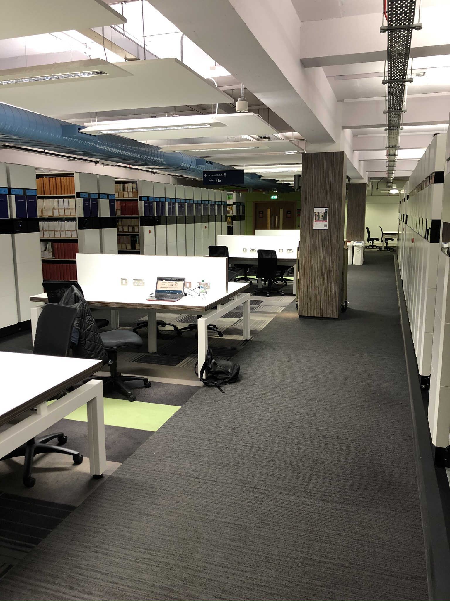 This is the silent ground floor of Strathclyde's Andersonian Library.